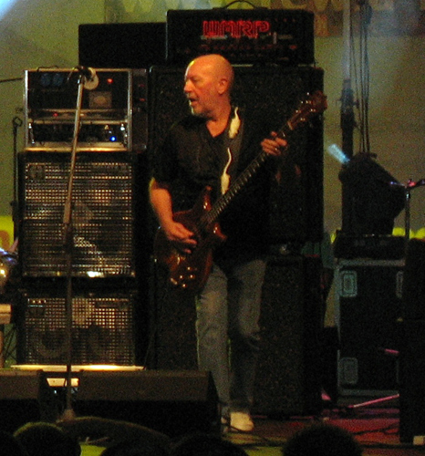 Pete Agnew